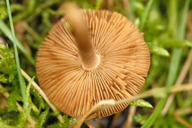 Inocybe napipes from Commanster, Belgian High Ardennes .